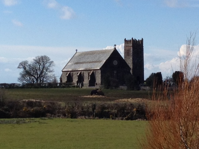 Image of the tower of St Andrew's Church, Andreas, Isle of Man